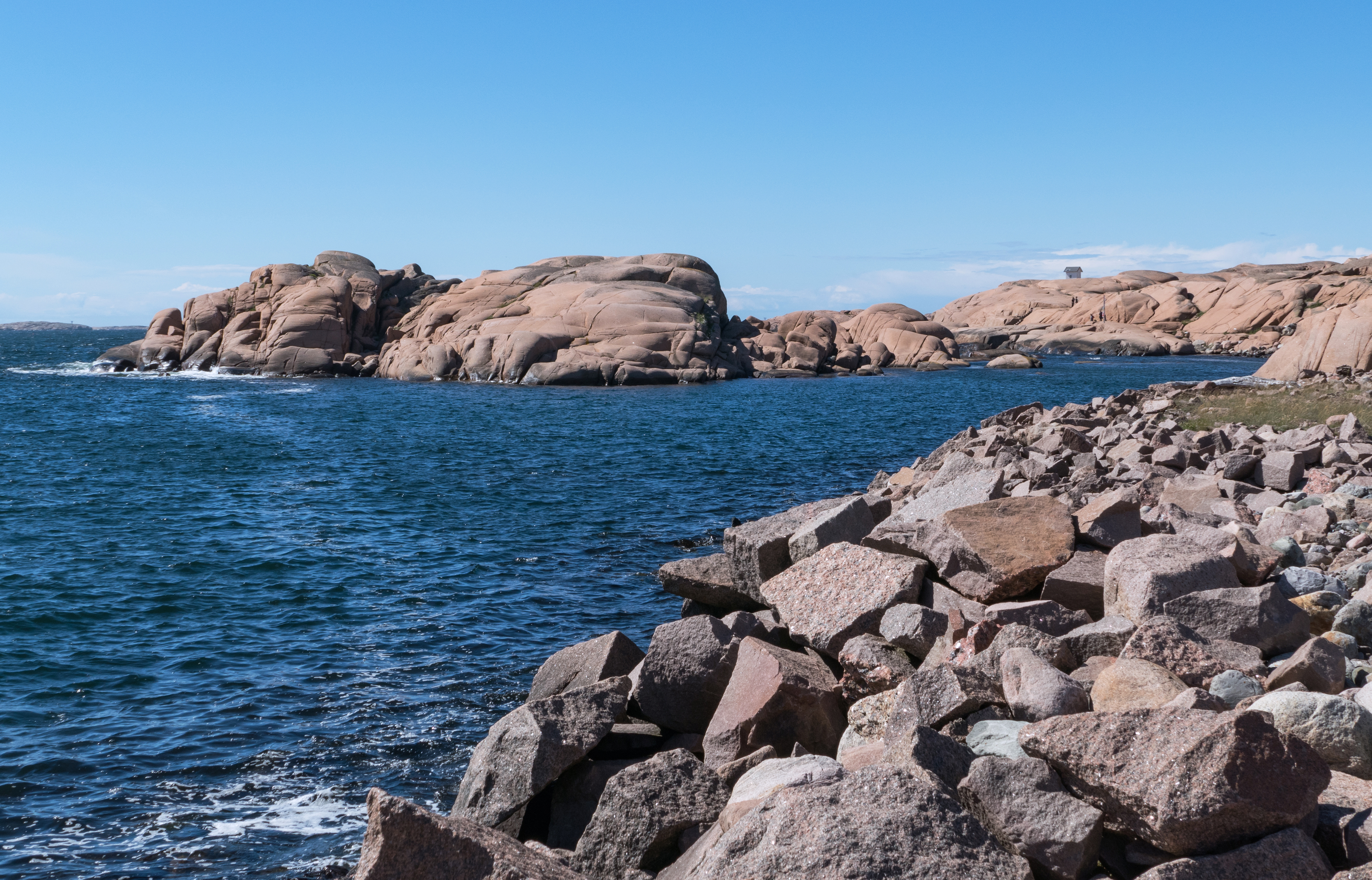 The glittering cliffs at Stångehuvud nature reserve in Lysekil, Sweden. The red granite cliffs are noted for their colour and the large feldspar and mica crystals (about 10 x 10 mm) that make any part of the cliffs glitter when the sun reflects off them. The cliffs in the nature reserve were saved from quarrying at the beginning of the 20th century by Calla Curman. She bought the whole area and donated it to Royal Swedish Academy of Sciences in 1925.This image illustrates how light, at different angles, is reflected off the feldspar crystals in the rock.